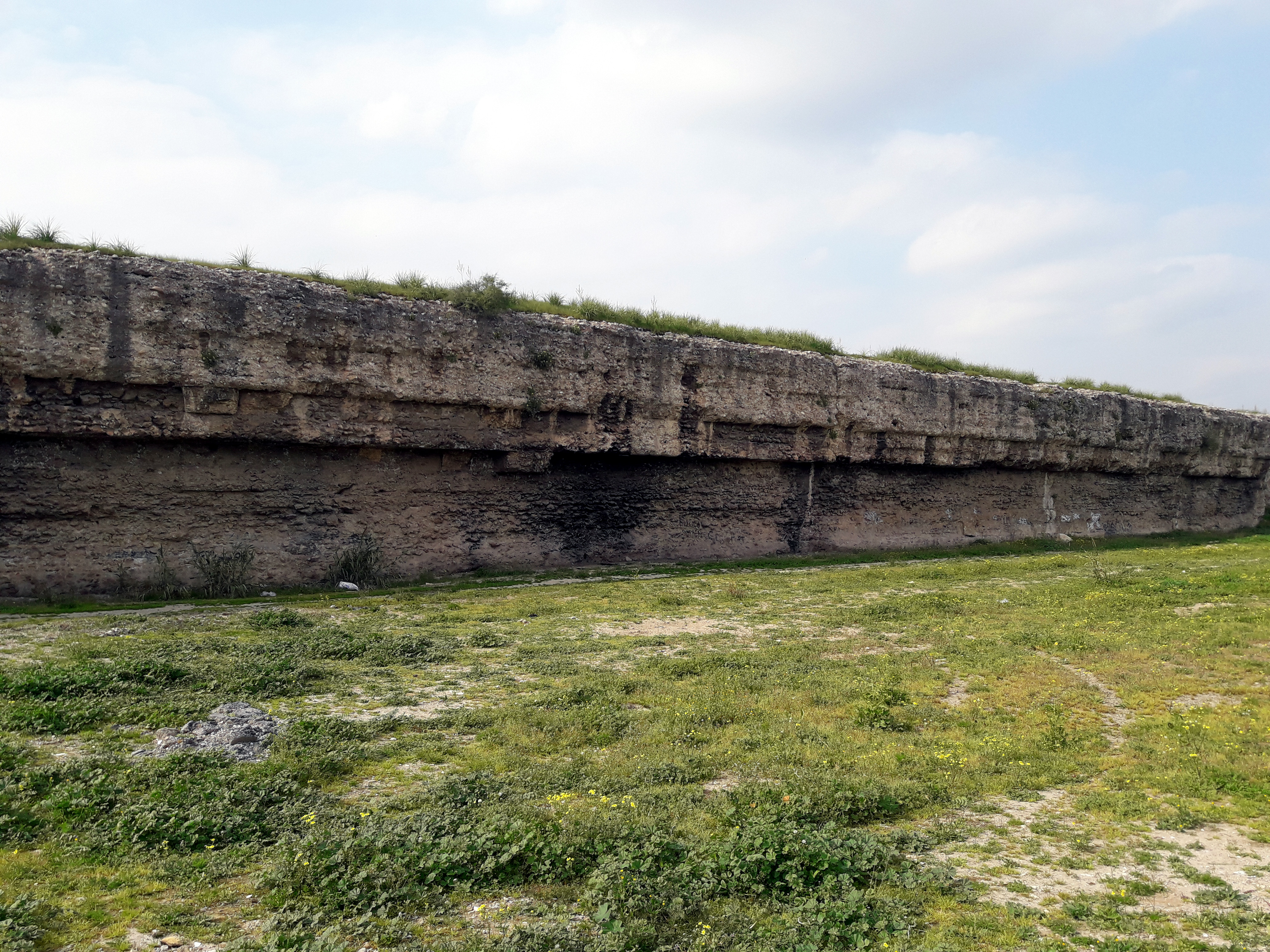 Donuktaş walls, Tarsuıs, Mersin Province